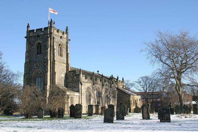 St Peter's Church, Wallsend.